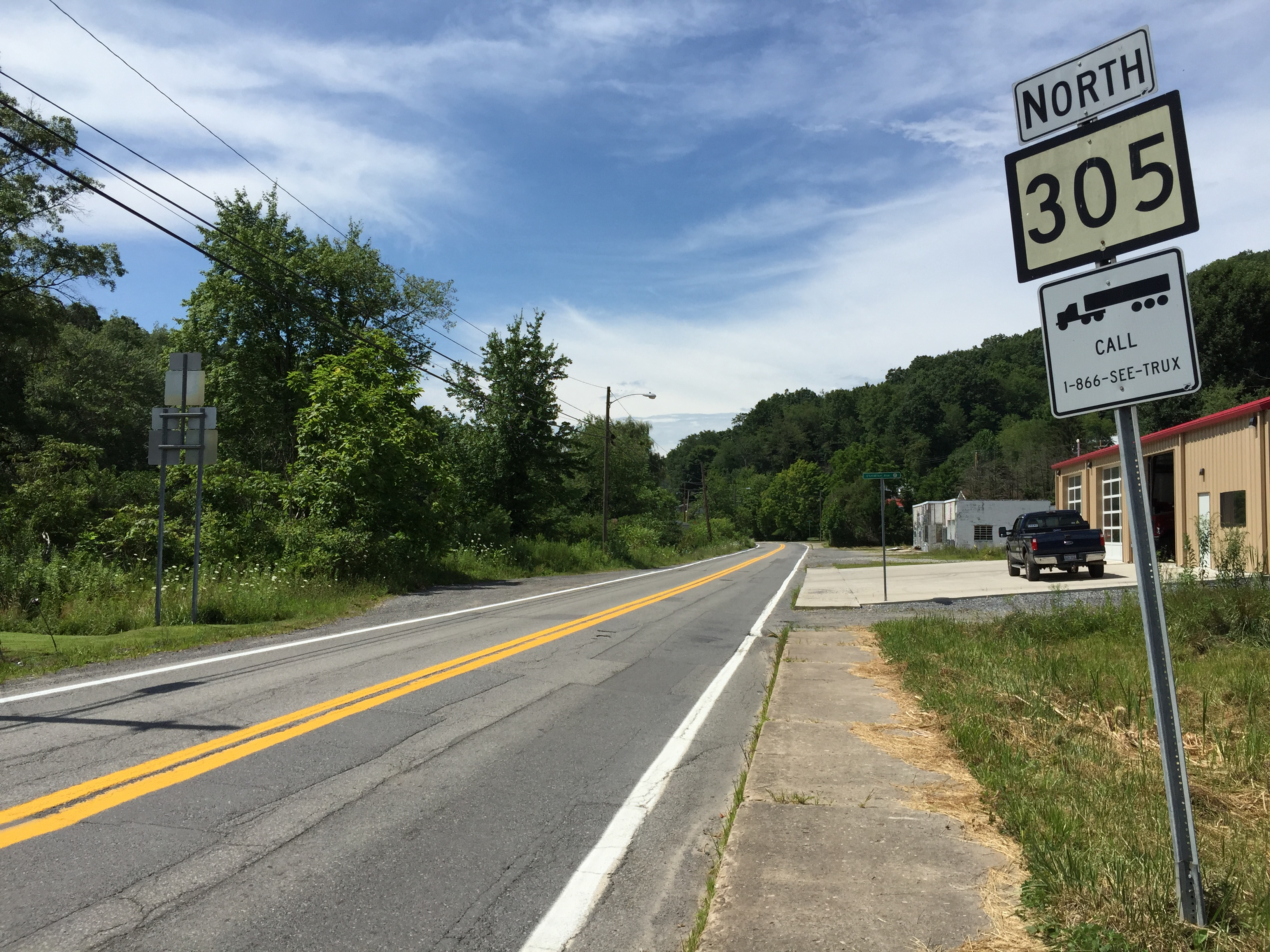 View north along West Virginia State Route 305 (Central Avenue) at Christian Avenue in Lester, Raleigh County, West Virginia